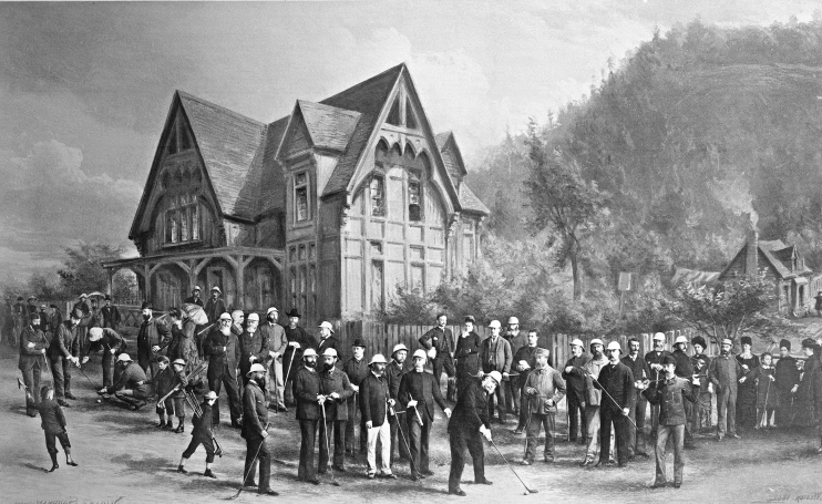 Photograph, Royal Montreal Golf Club, Montreal, QC, composite, 1882, Notman & Sandham, Silver salts on glass - Gelatin dry plate process - 20.5 x 25.4 cm